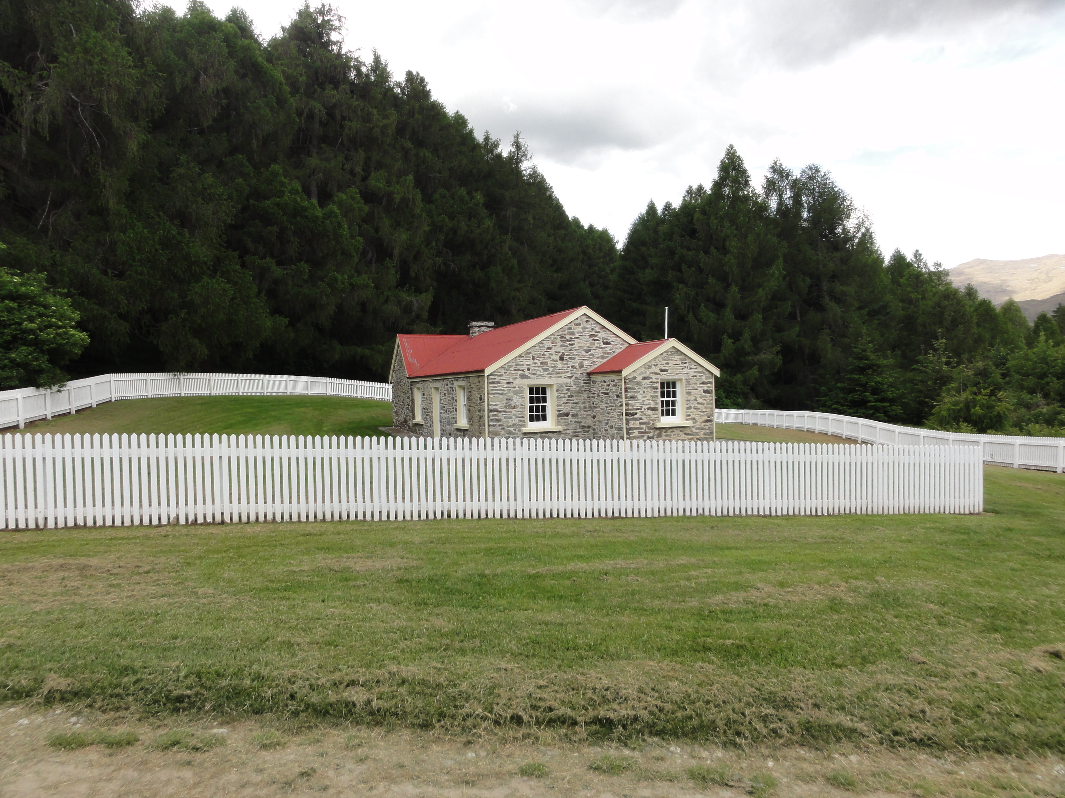 Skippers school, Skippers Canyon, near Queenstown, New Zealand